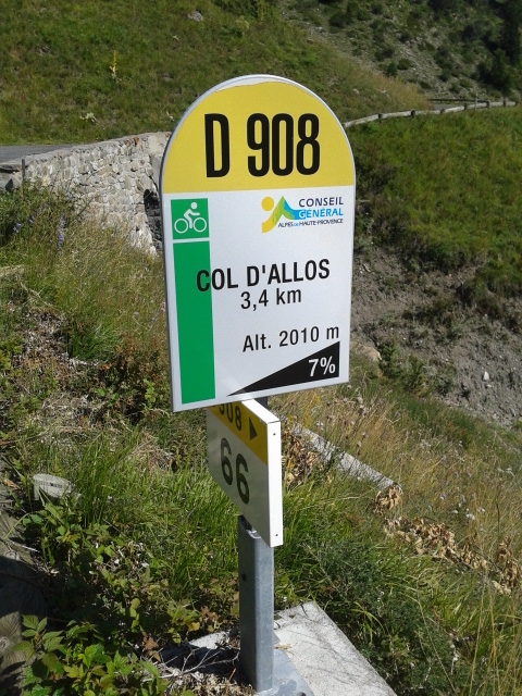 Mountain pass cycling milestone at the Col d'Allos in France ascending from Barcelonnette